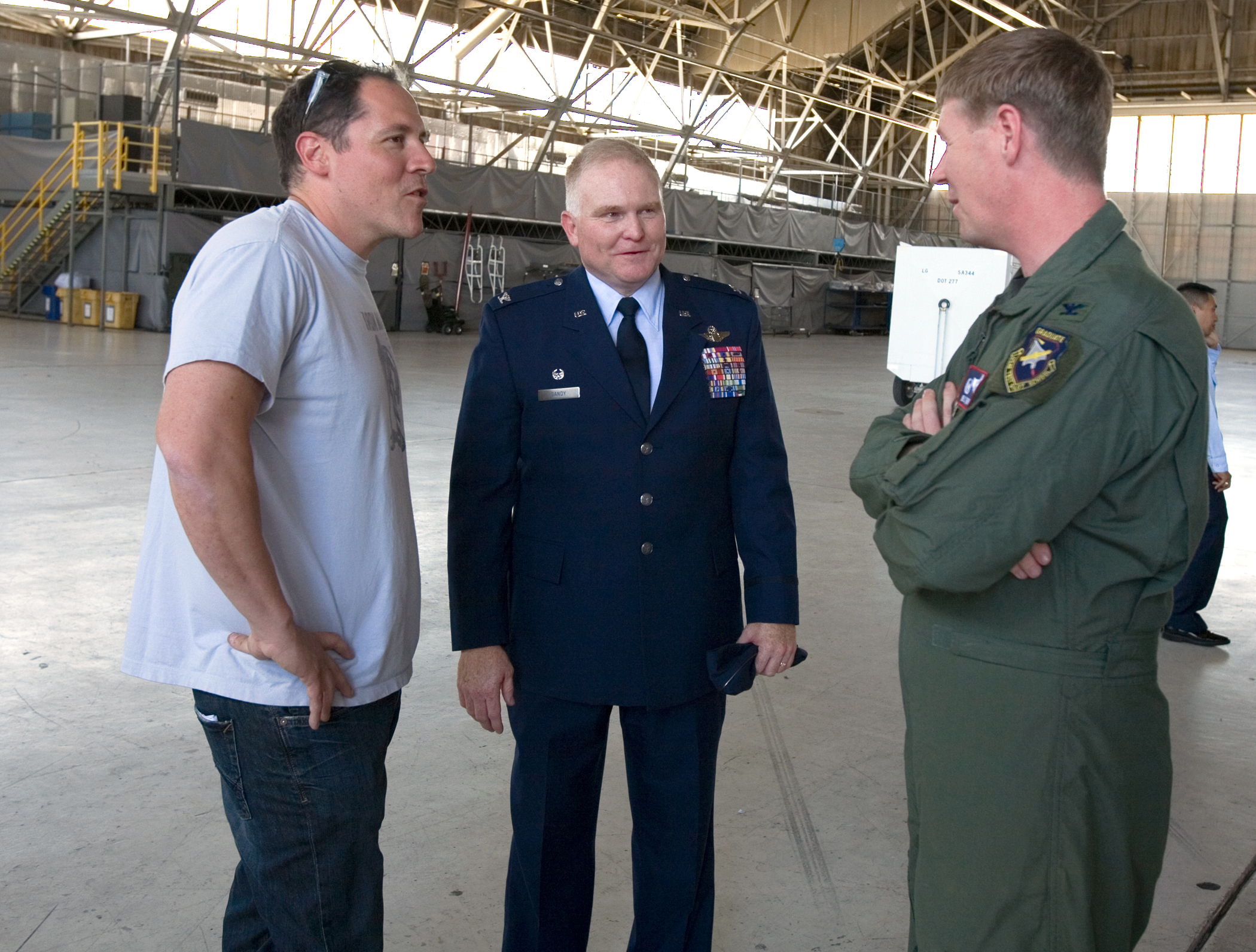 Col. William Thorton (right), 412th Test Wing commander, talks to Jon Favreau (left), "Ironman II" director and Col. Jerry Gandy (middle), 95th Air Base Wing commander, during a break from the shooting of "Ironman II".